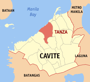 Map of Cavite showing the location of Tanza